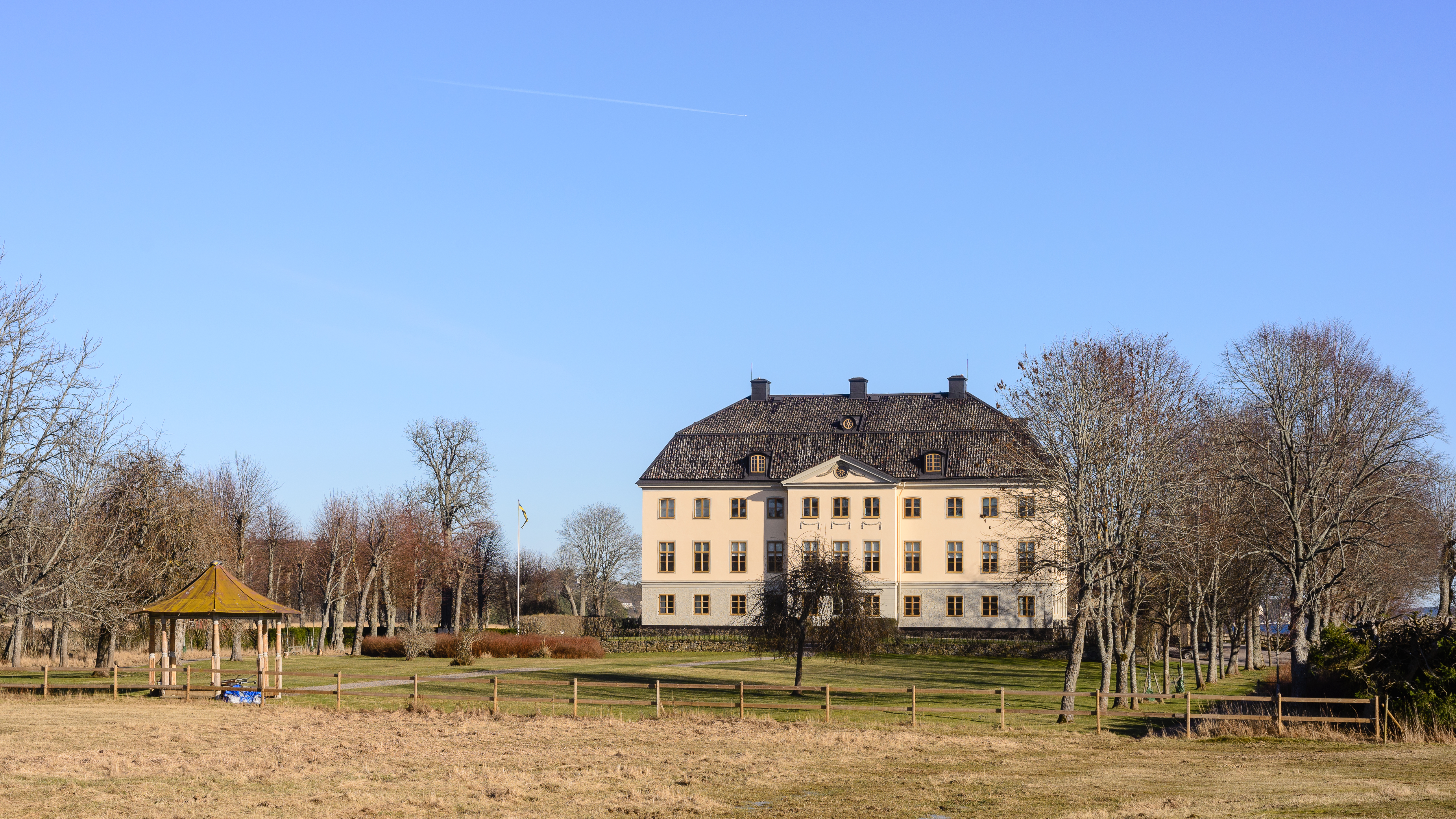 Erstavik Manor, Nacka (Stockholm).